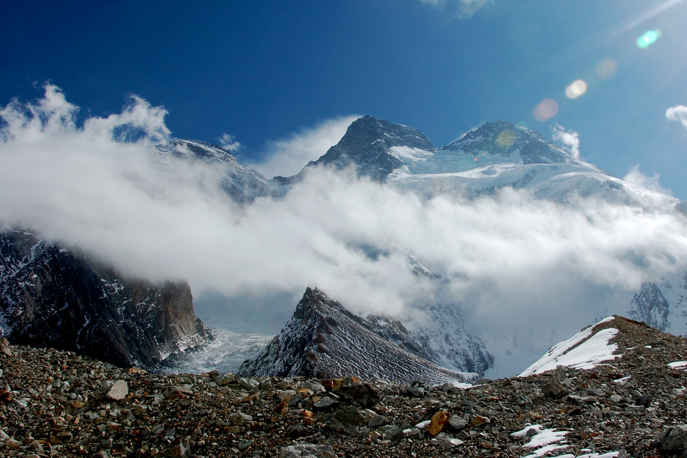 Broad Peak from Godwin-Austen Glacier: Broad Peak North on the links (Behind clouds), Broad Peak Central (centre left) and Broad Peak Main (centre right)